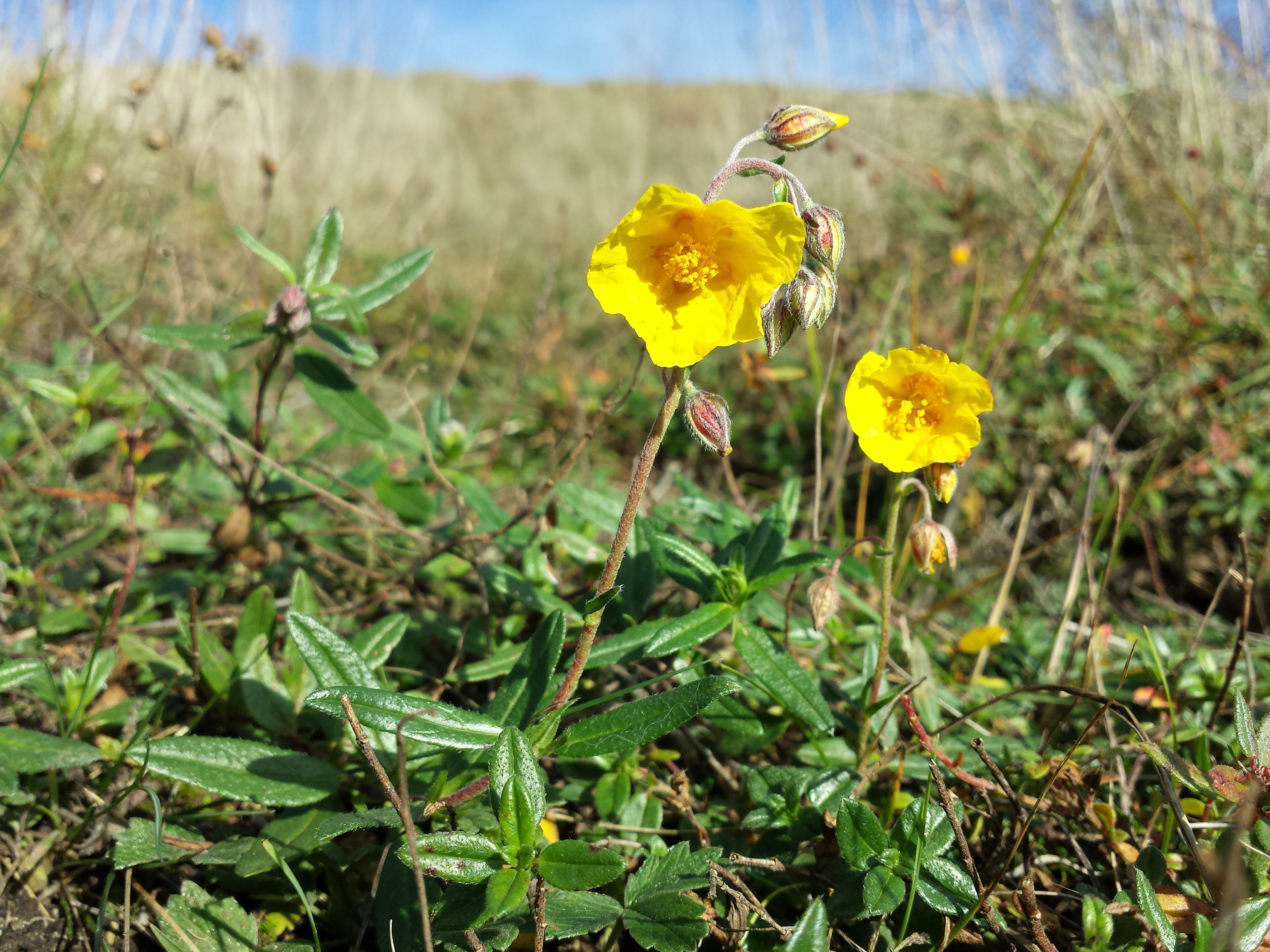 Habitus Taxon: Helianthemum nummularium subsp. obscurum (sensu Fischer et al. EfÖLS 2008 ISBN 978-3-85474-187-9) Location: Gebmannsberg, district Korneuburg, Lower Austria - ca. 340 m a.s.l. Habitat: semi dry grassland